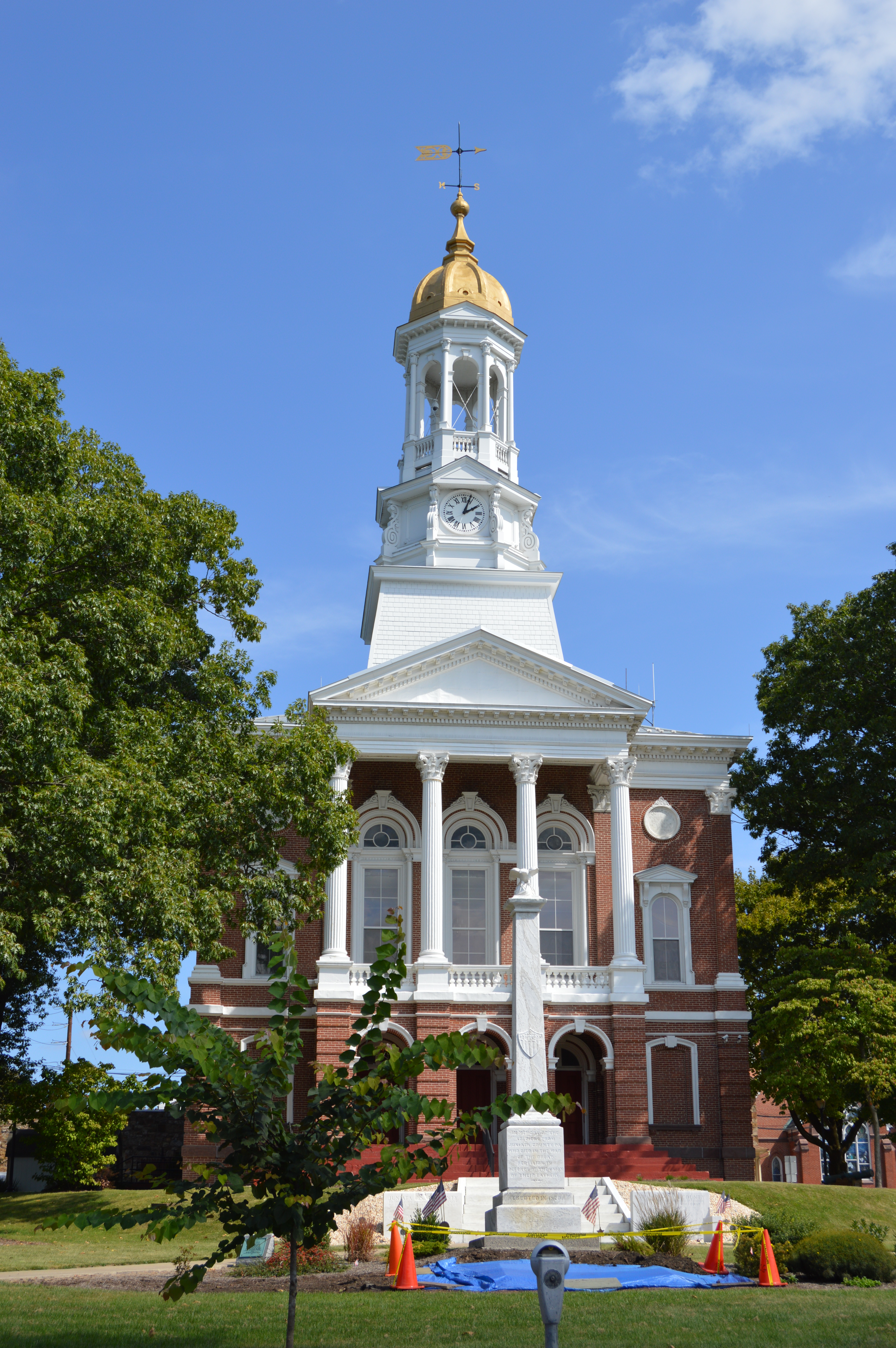 Front of the Juniata County Courthouse, located at 1 N. Main Street at the Washington Avenue (Pennsylvania Route 35) intersection in Mifflintown, Pennsylvania, United States. It was built in 1873.